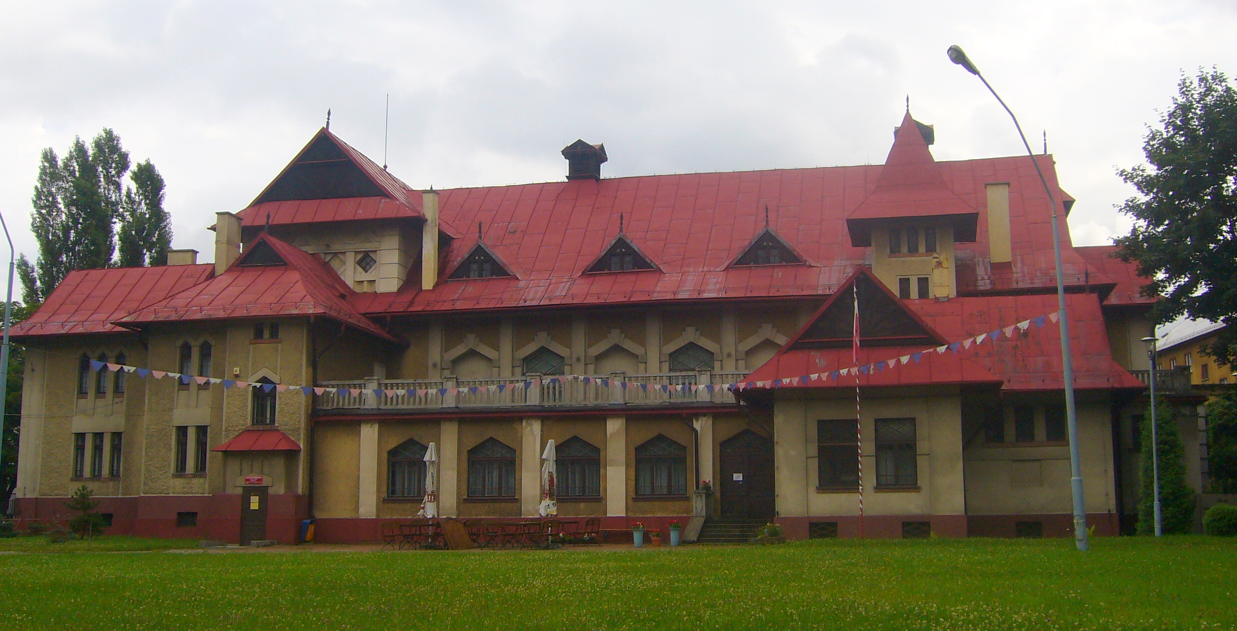 Building of Dom Żołnierza at 27 Władysław Broniewski Street in Bielsko-Biała, Poland.